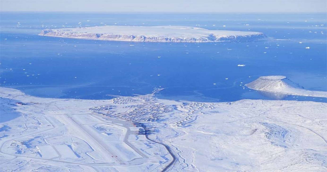 Thule Air Base, Northern Greeland, looking west to Saunders Island